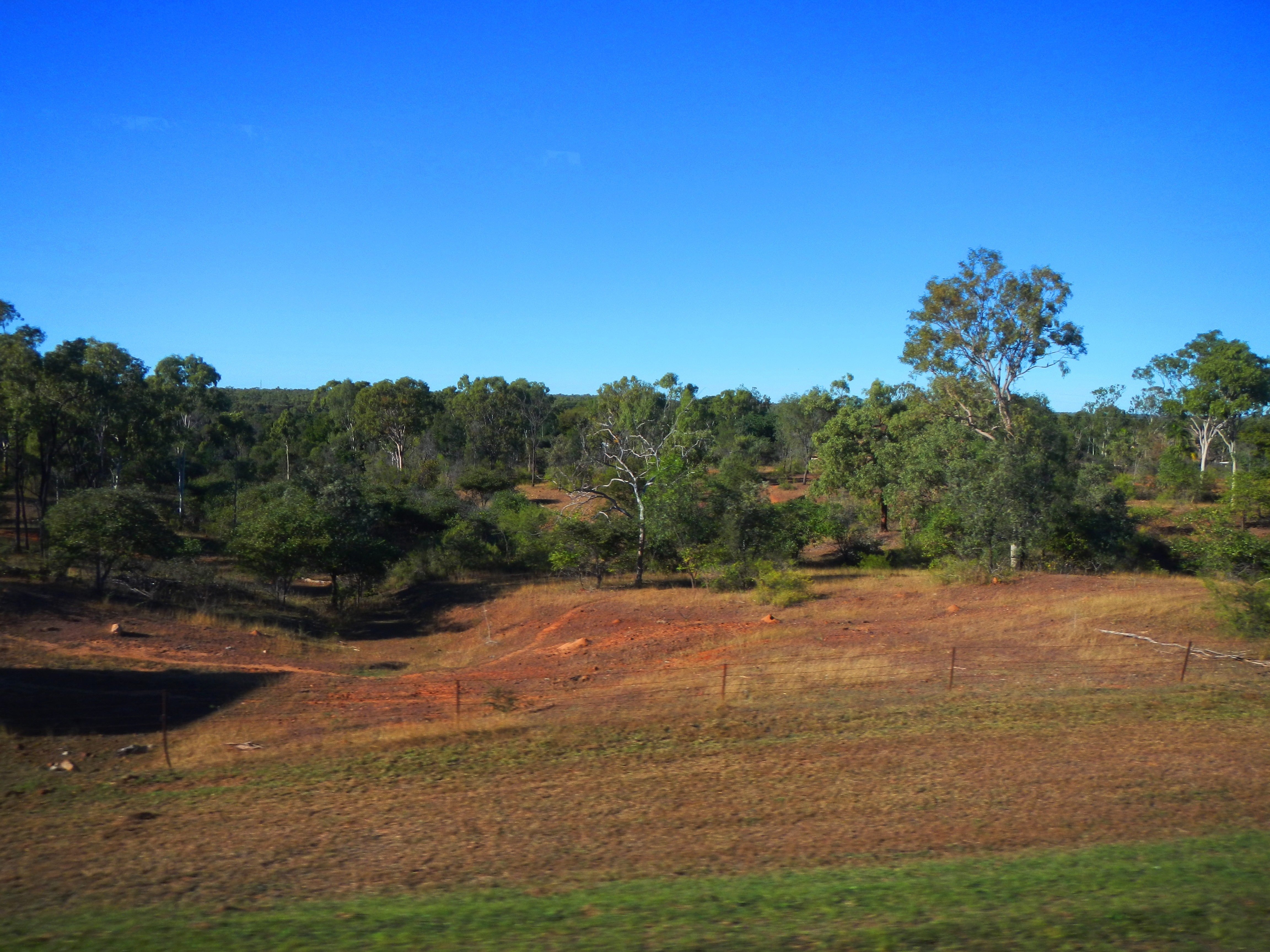 Depression outside of Charters Towers